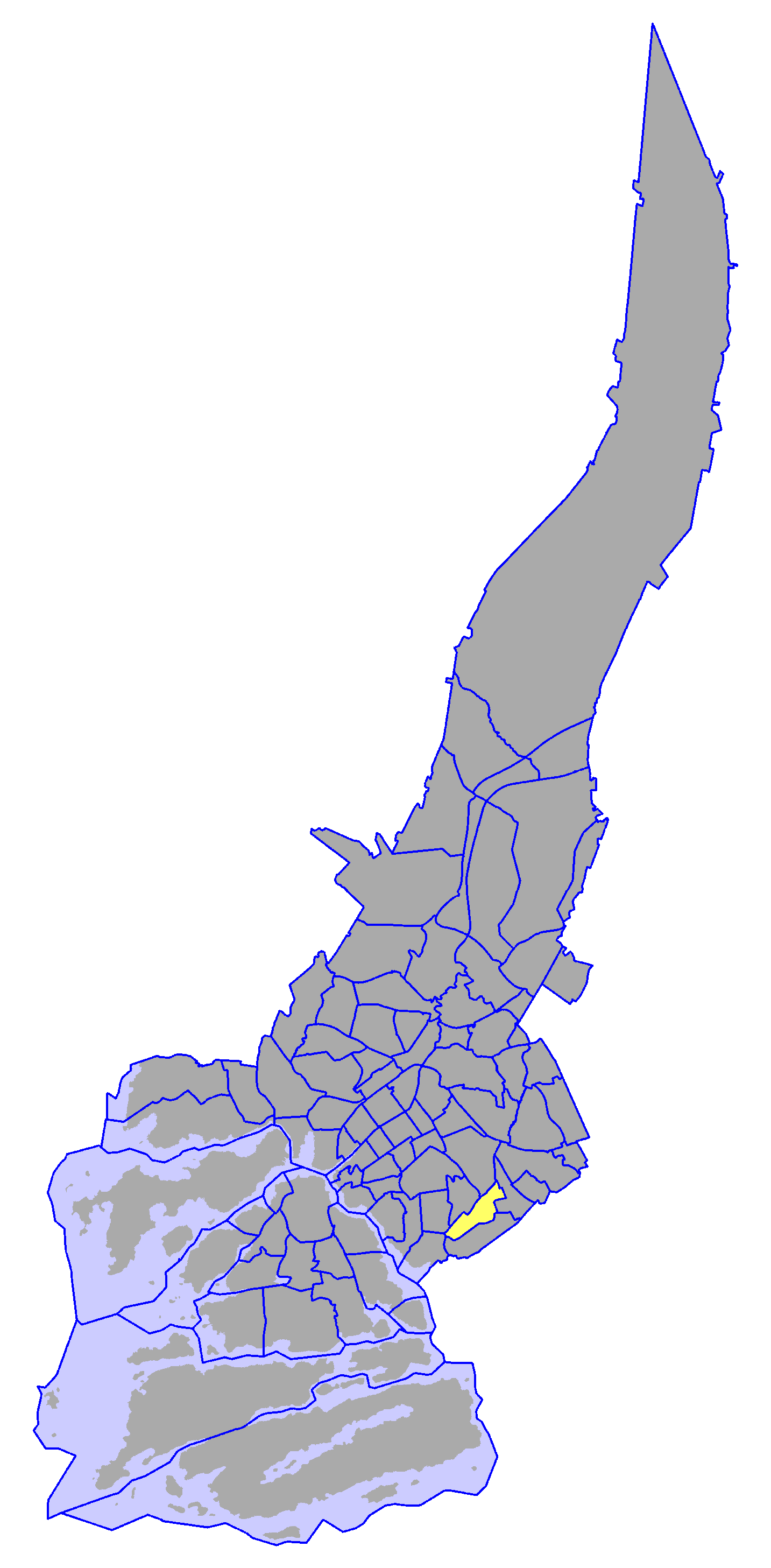 District of Koivula, in Turku